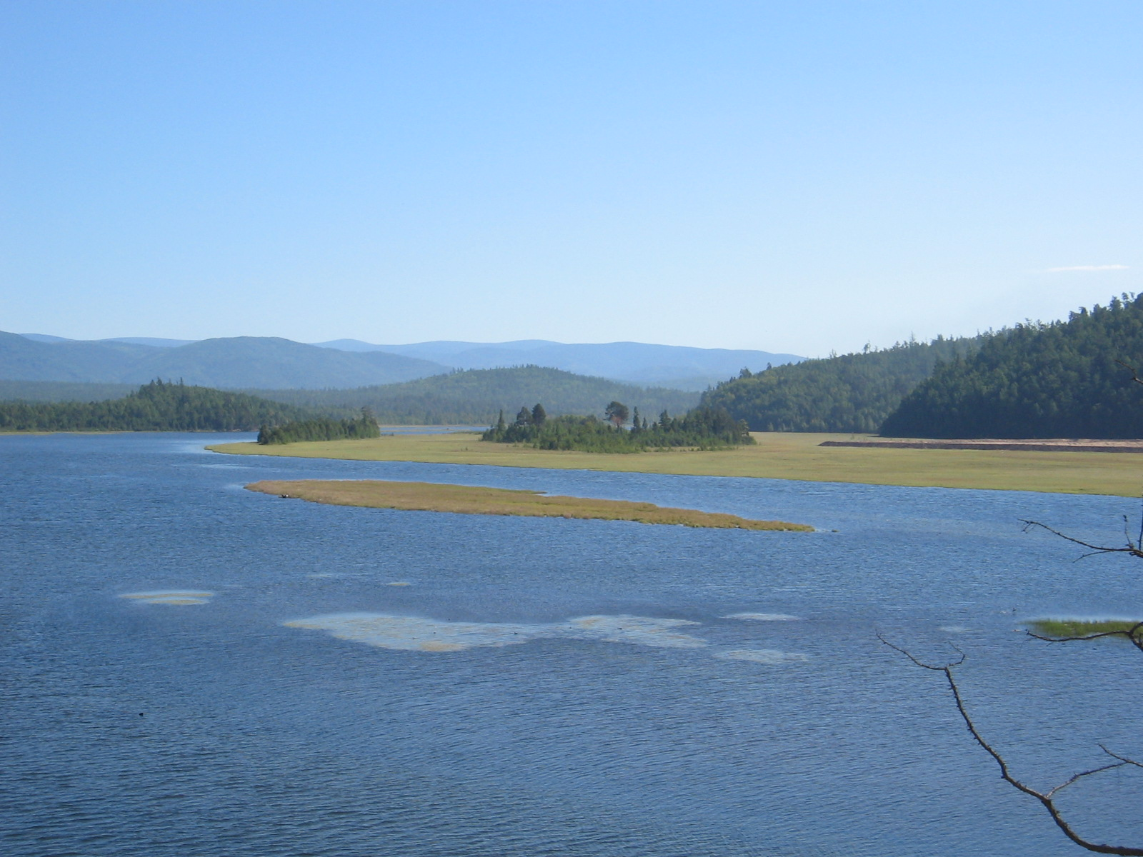 View of the Turka River on its mouth before joining the Baikal Lake